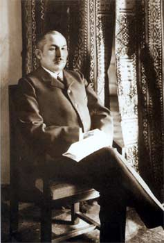 Picture of Nikolay Khomyakov (1850 - 1925), third Chairman of the Imperial State Duma from 1907 to 1910